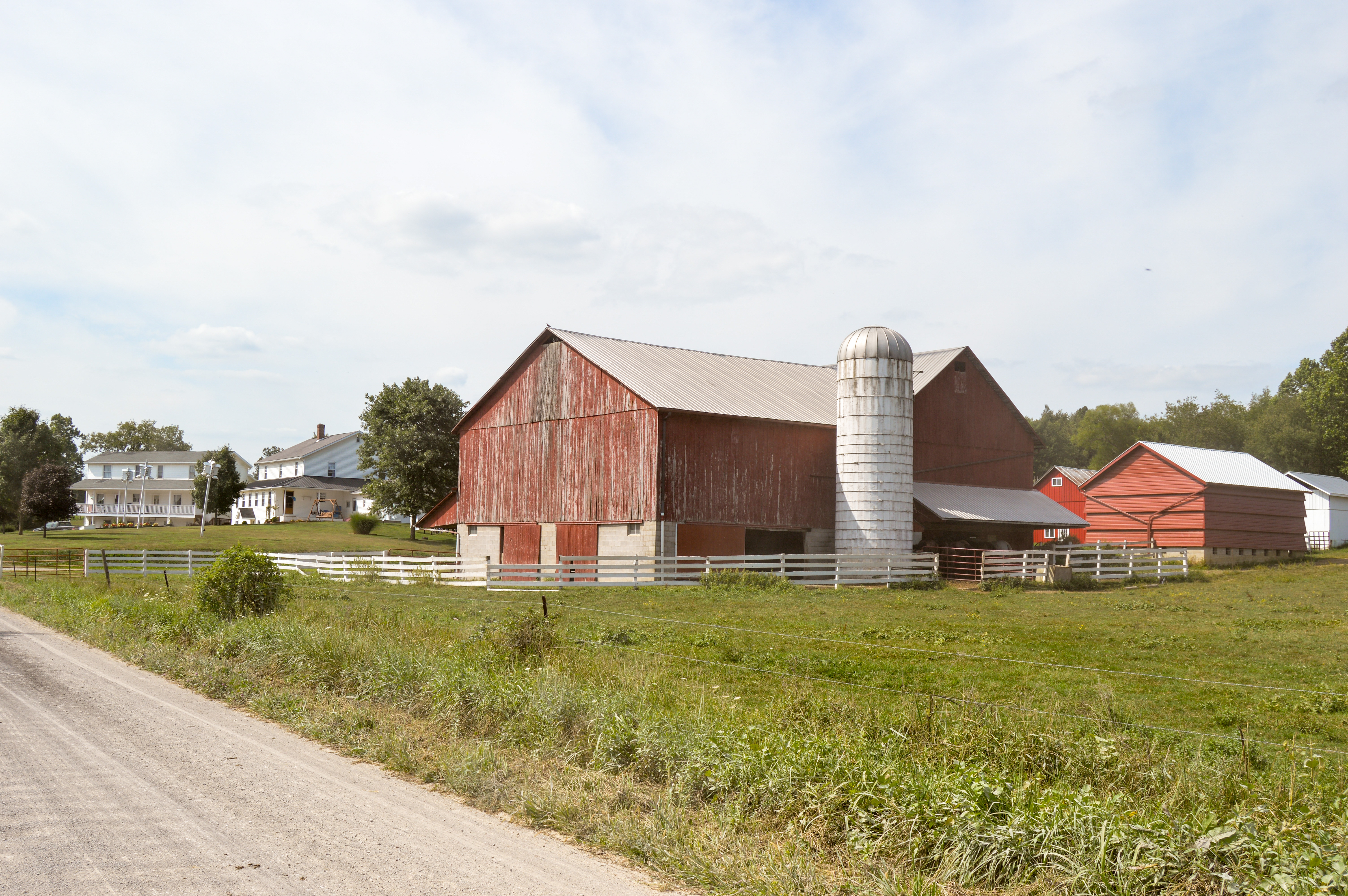 Looking northwest from Township Road 95 to a farmstead in extreme southeastern Perry Township, Morrow County, Ohio, United States. The complete lack of utility wires heading to this farm identifies it as one of the area's numerous Amish farmsteads; an SUV sits in the driveway at extreme left, probably owned by one of the area's numerous "Amish drivers", non-Amish individuals who use their own vehicles to transport Amish.